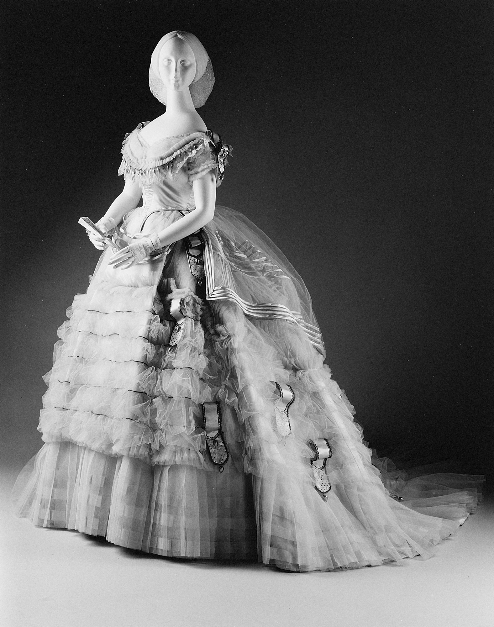 French; Ball gown